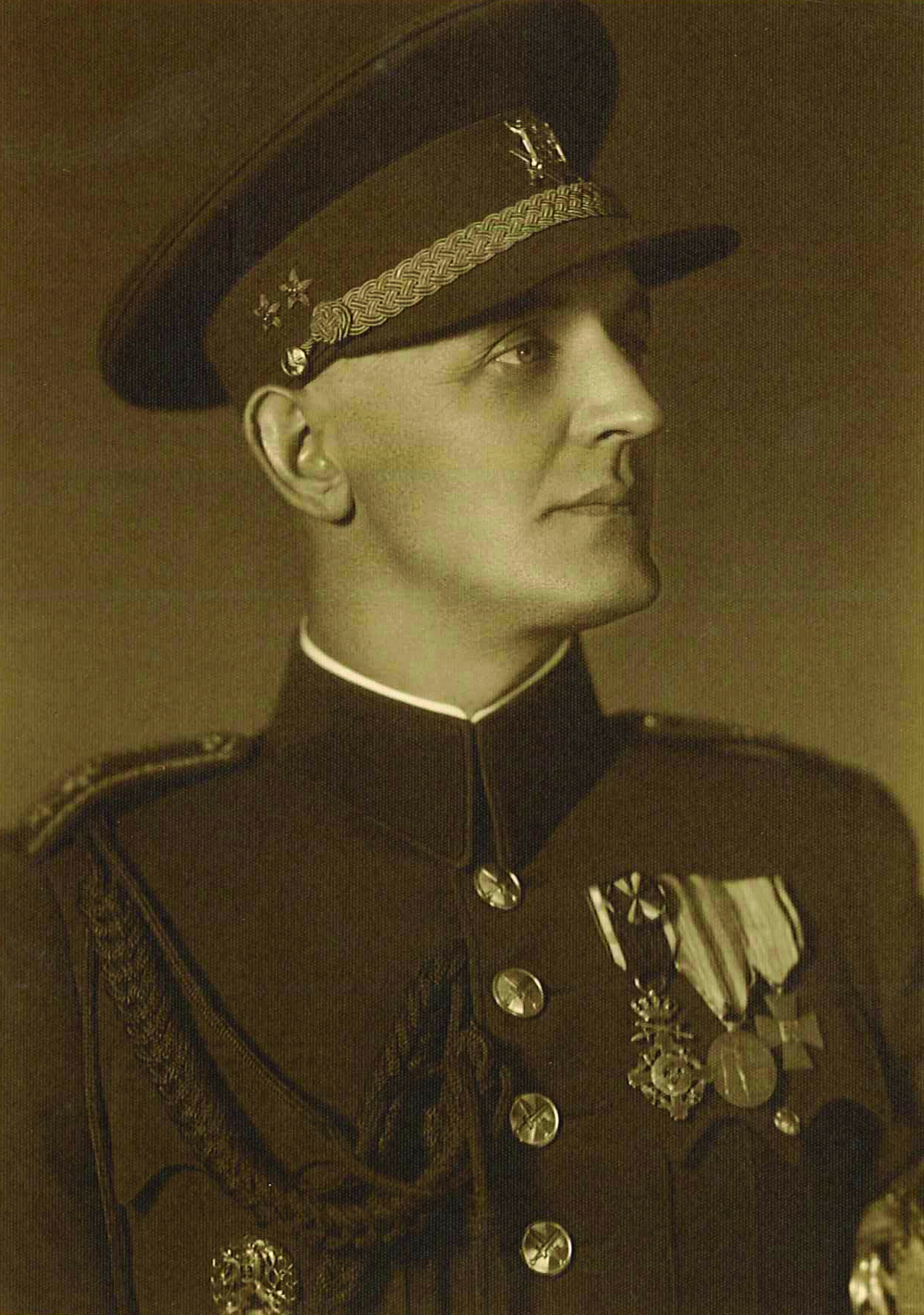 Bohumil Klein (1898-1939, born in Svatý Jan nad Malší), a Czech professional soldier and a member of the Czech resistance to Nazi occupation.